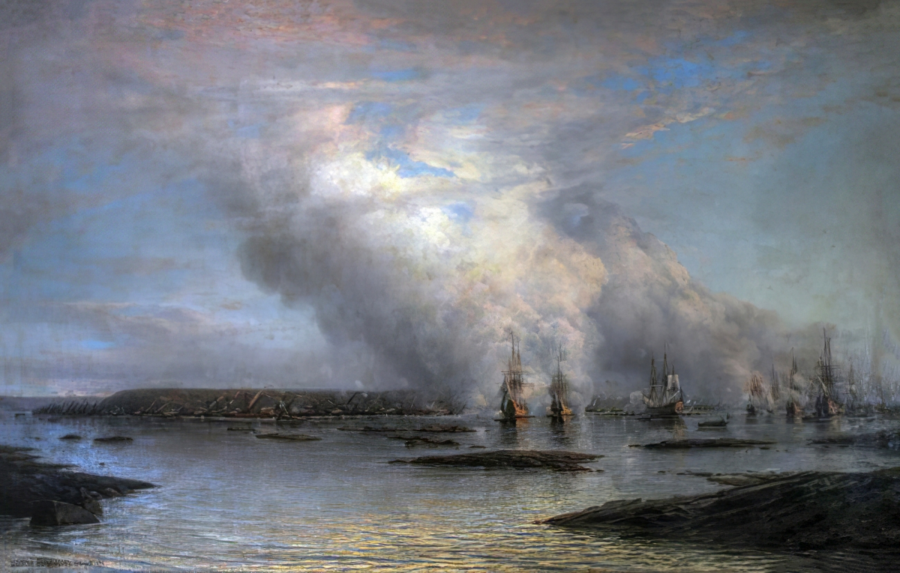 Alexey Bogolyubov (1824-1896). The Battle of Gangut.